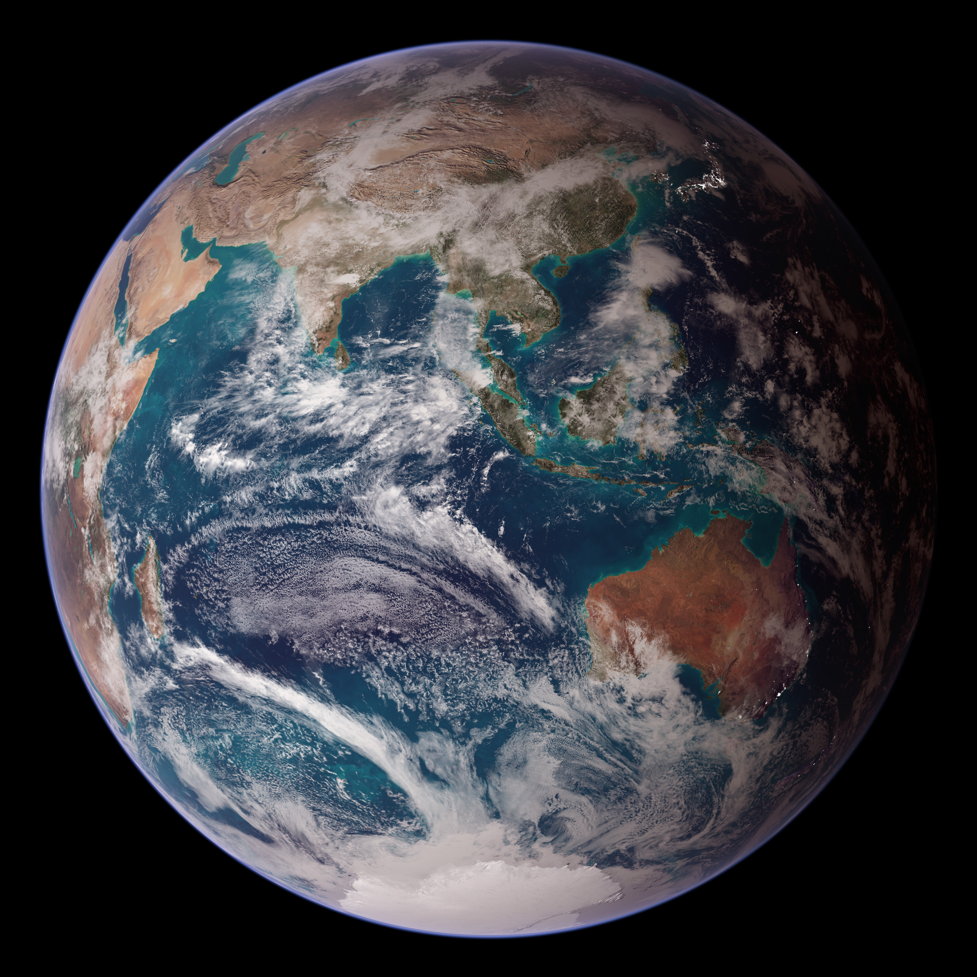 Composite rendering of the Eastern Hemisphere of Earth, based on data from the Terra and Aqua satellites' MODIS instruments, the Defense Meteorological Satellite Program, Space Shuttle Endeavour, and the Radarsat Antarctic Mapping Project, combined by scientists and artists.